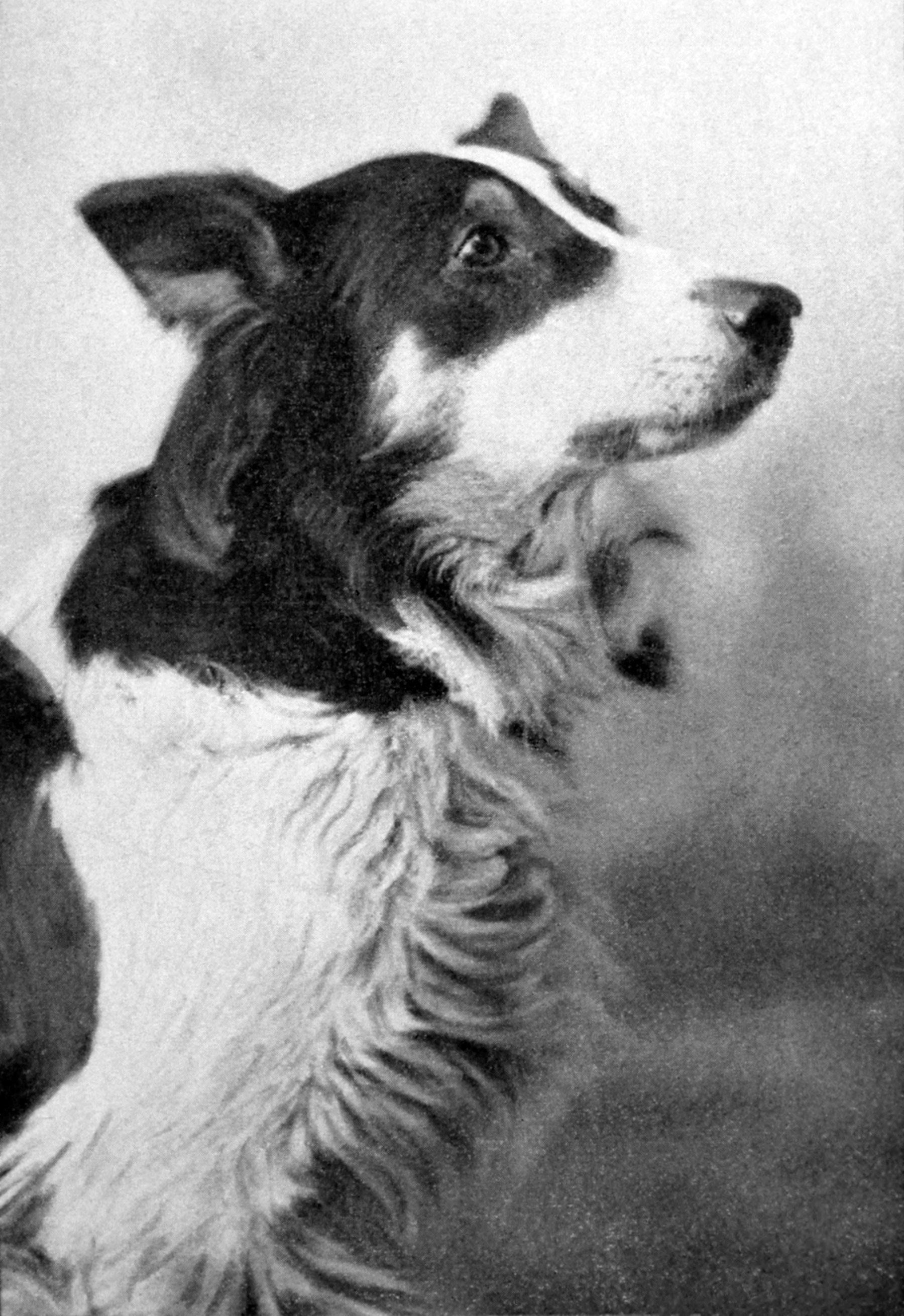 Portrait of Jean, the Vitagraph Dog